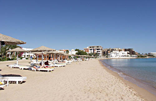 Strand Old Vic, Hurghada, Egypte